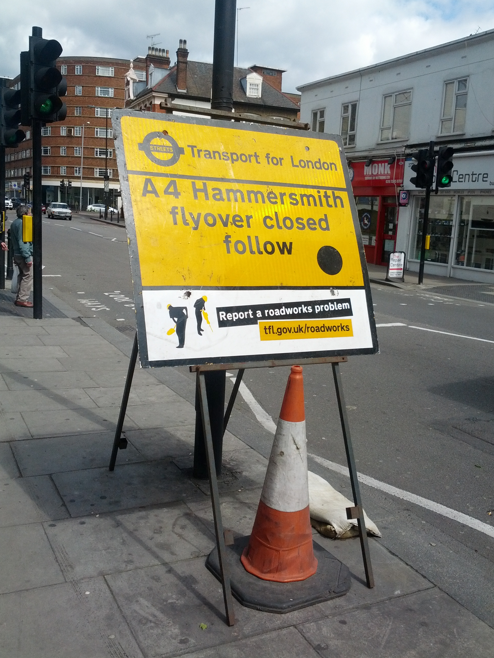 Photo of a sign informing motorists on North End Road that the Hammersmith Flyover was closed in May 2012